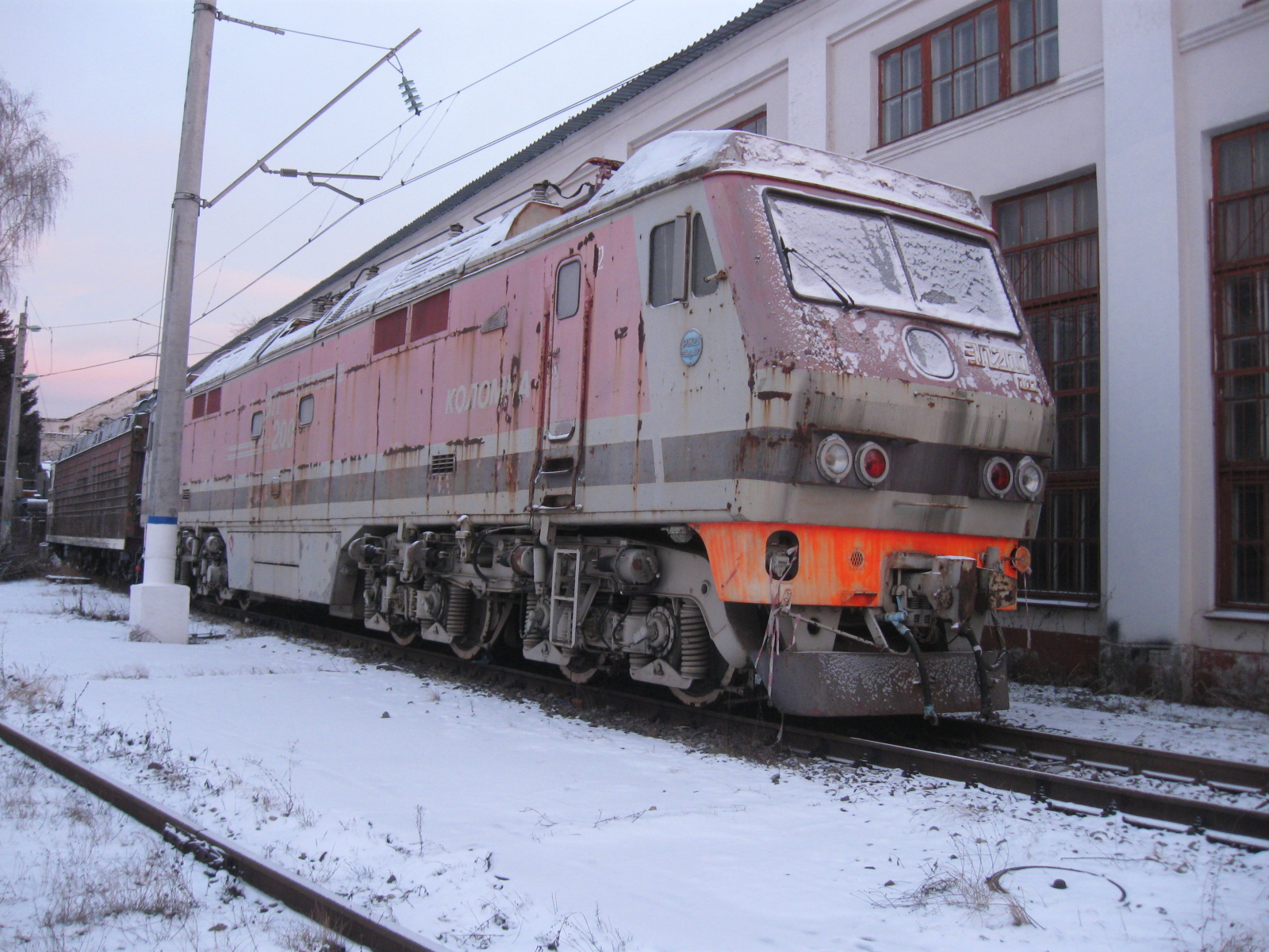 EP200-0002 electric locomotive at reserve tracks of railway test circuit of VNIIZhT (after write off)